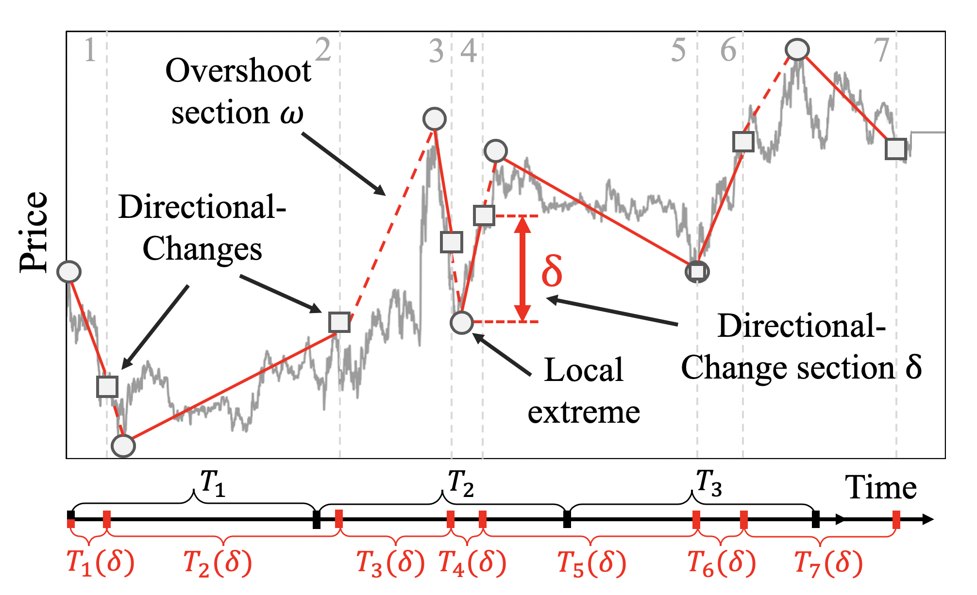 A price curve (grey) dissected into a set of directional-changes (grey squares). The size of the threshold selected for the dissection is shown in the middle of the figure. Local extremes are marked by grey circles. The timeline contains intervals of equal length in physical time and a sequence of intervals indicating the duration of directional-change sections.